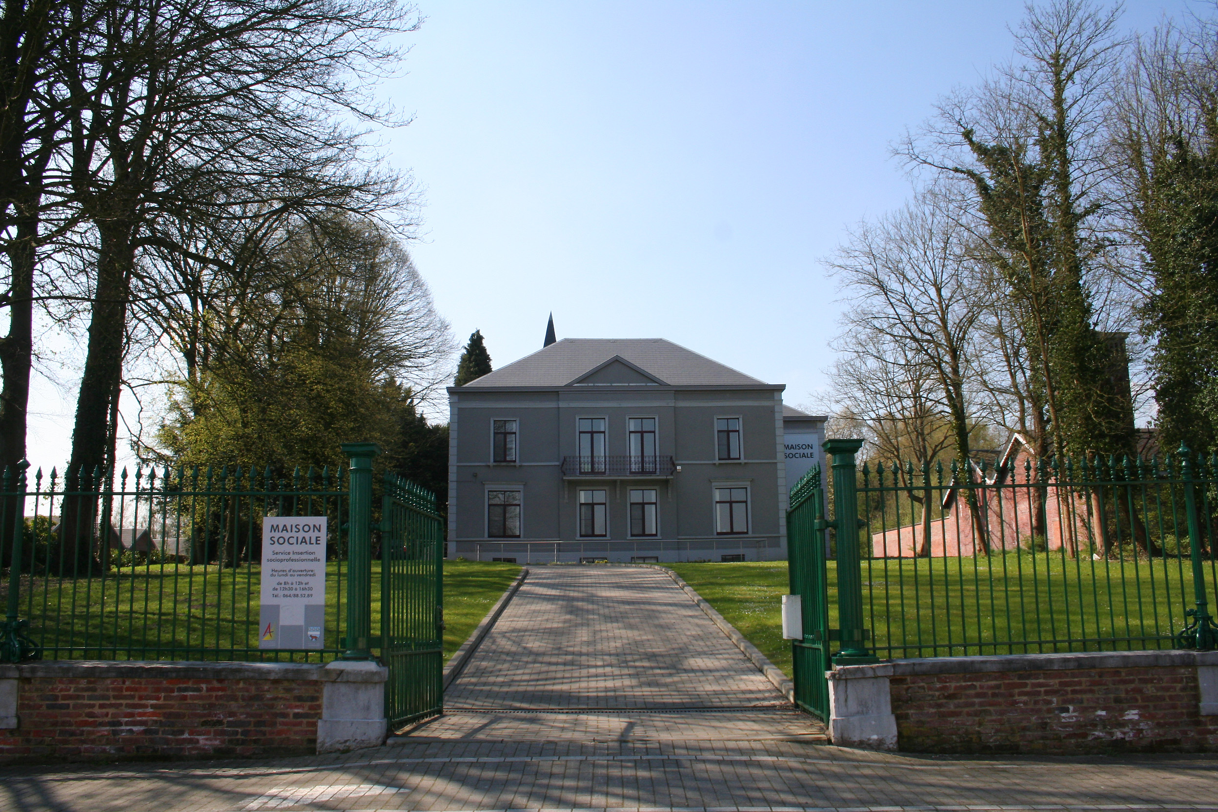 Houdeng-Aimeries (Belgium), manager house (1844) of the coal mine of «Bois-du-Luc» (1838-1853).